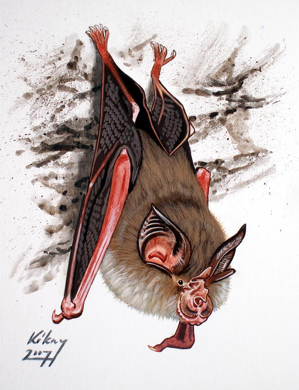 The Lesser Horseshoe Bat (Rhinolophus hipposideros), is a type of European bat.